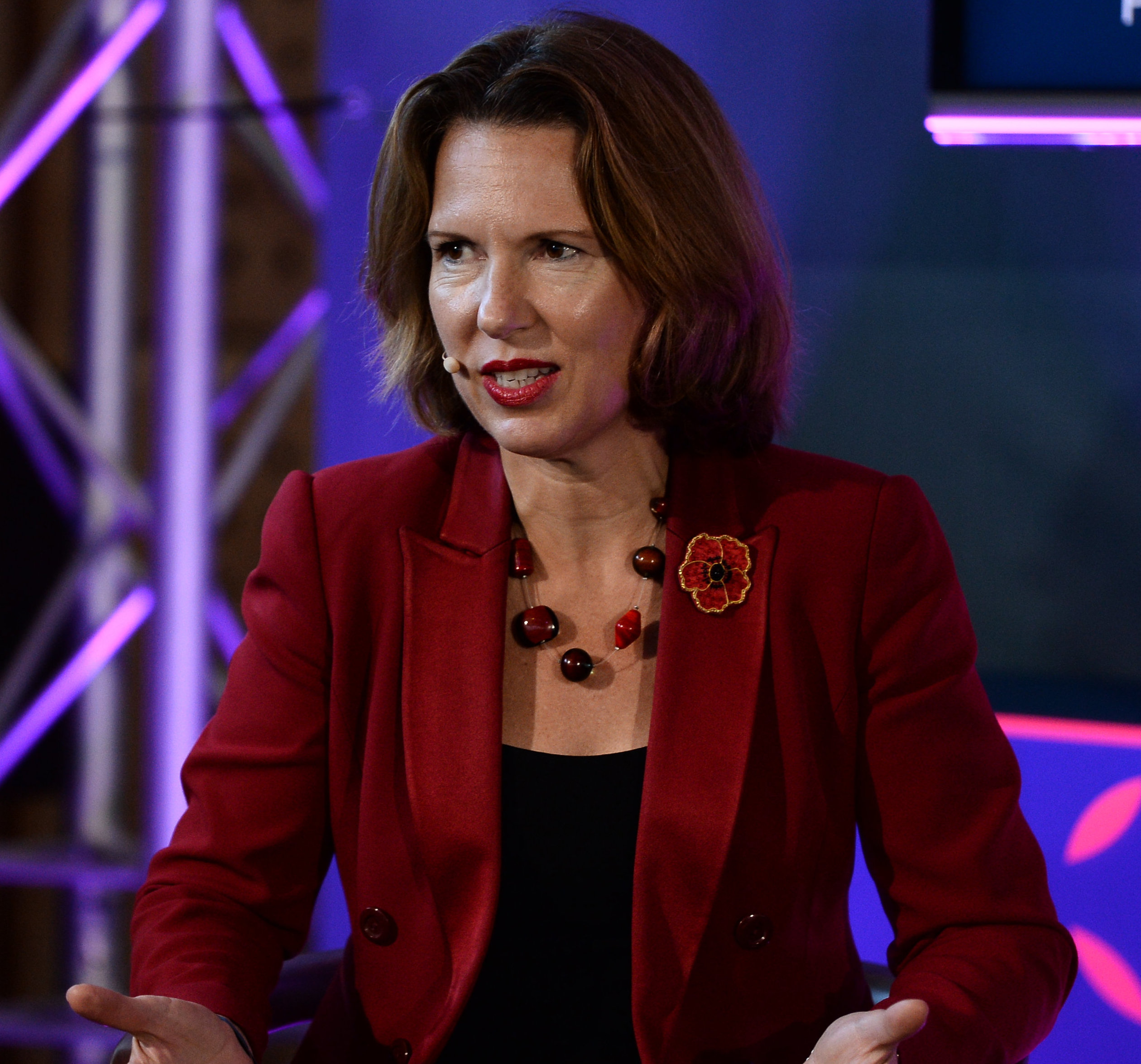 7 November 2017; Caroline Wilson, Europe Director, UK Foreign and Commonwealth Office, on the Forum Stage during the opening day of Web Summit 2017 at Altice Arena in Lisbon. Photo by Diarmuid Greene/Web Summit via Sportsfile